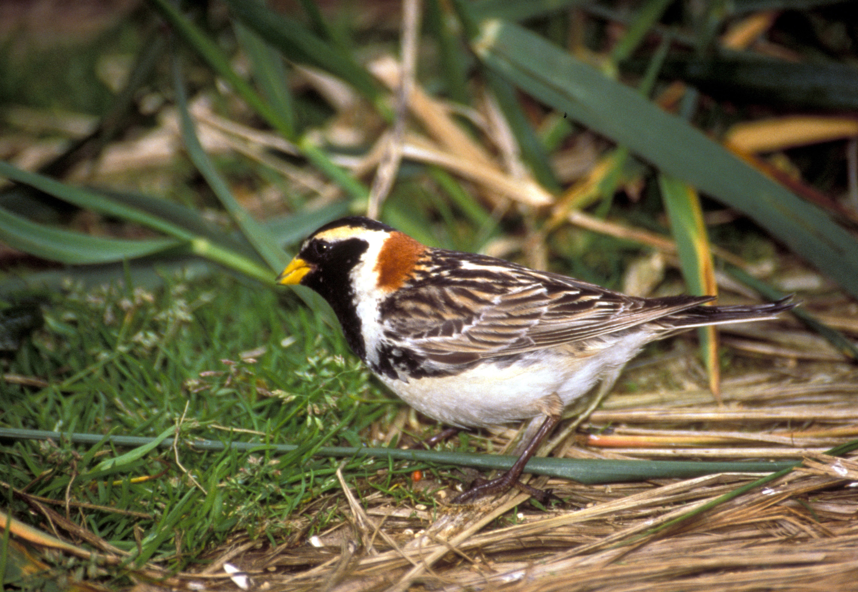 Lapland Longspur (Calcarius lapponicus), Alaska Maritime National Wildlife Refuge